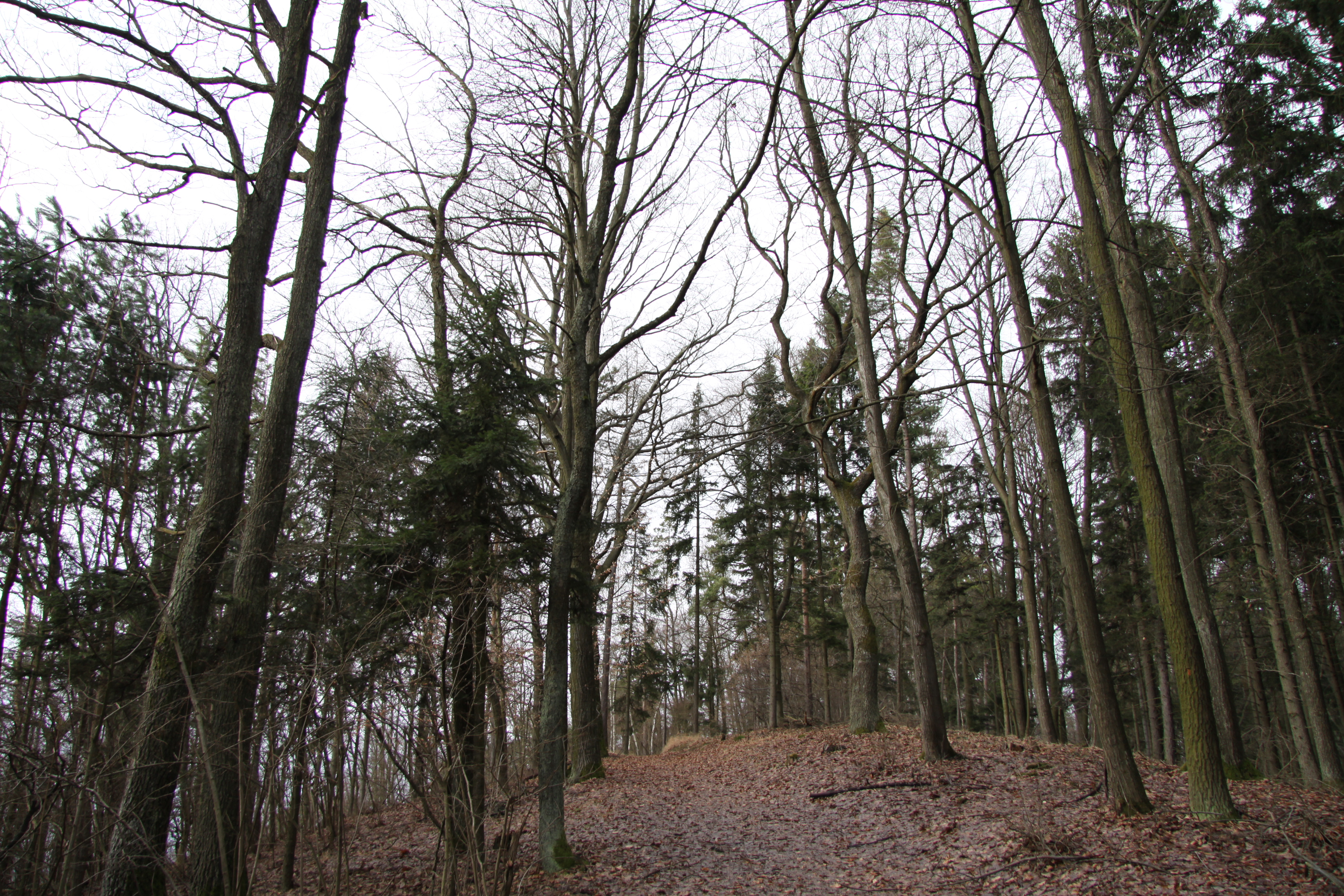 Nature reserve Kuřidlo near Strakonice, Strakonice District, Czech Republic